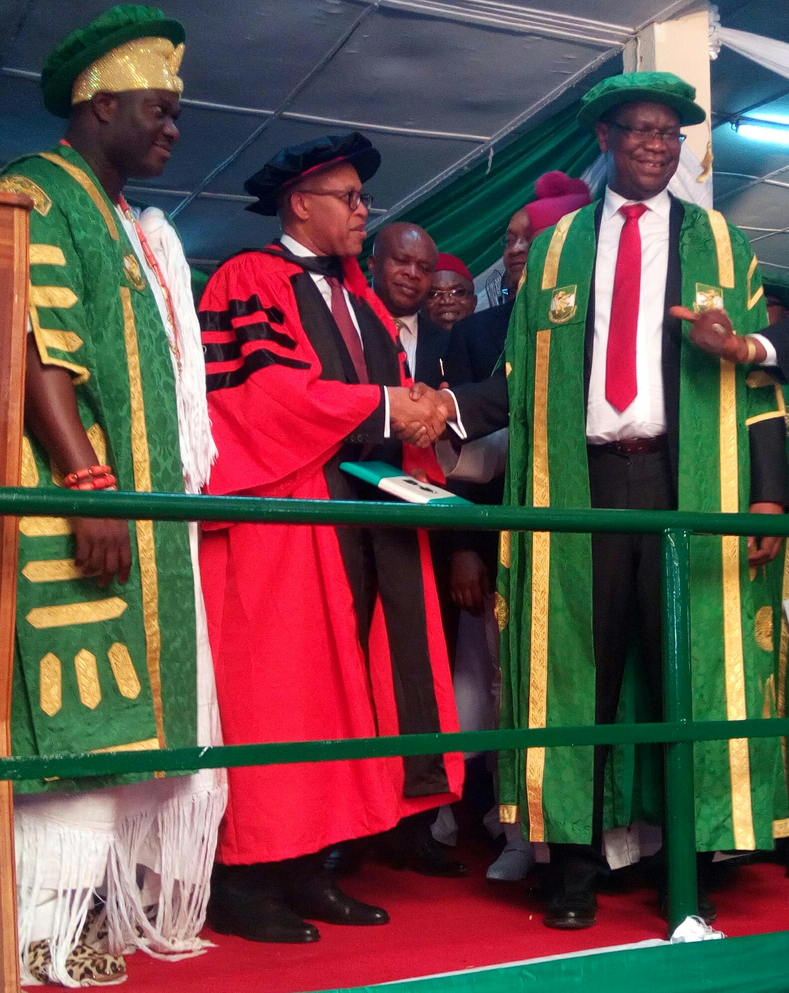 from the left Oni of Ife and Chancellor of the University of Nigeria, Nsukka Oba Adeyeye Eniitan Ogunwusi,CEO of Oil Serv Nigeria Emeka Okwosa and Vice Chancellor of the University of Nigeria, Nsukka Benjamin Ozumba